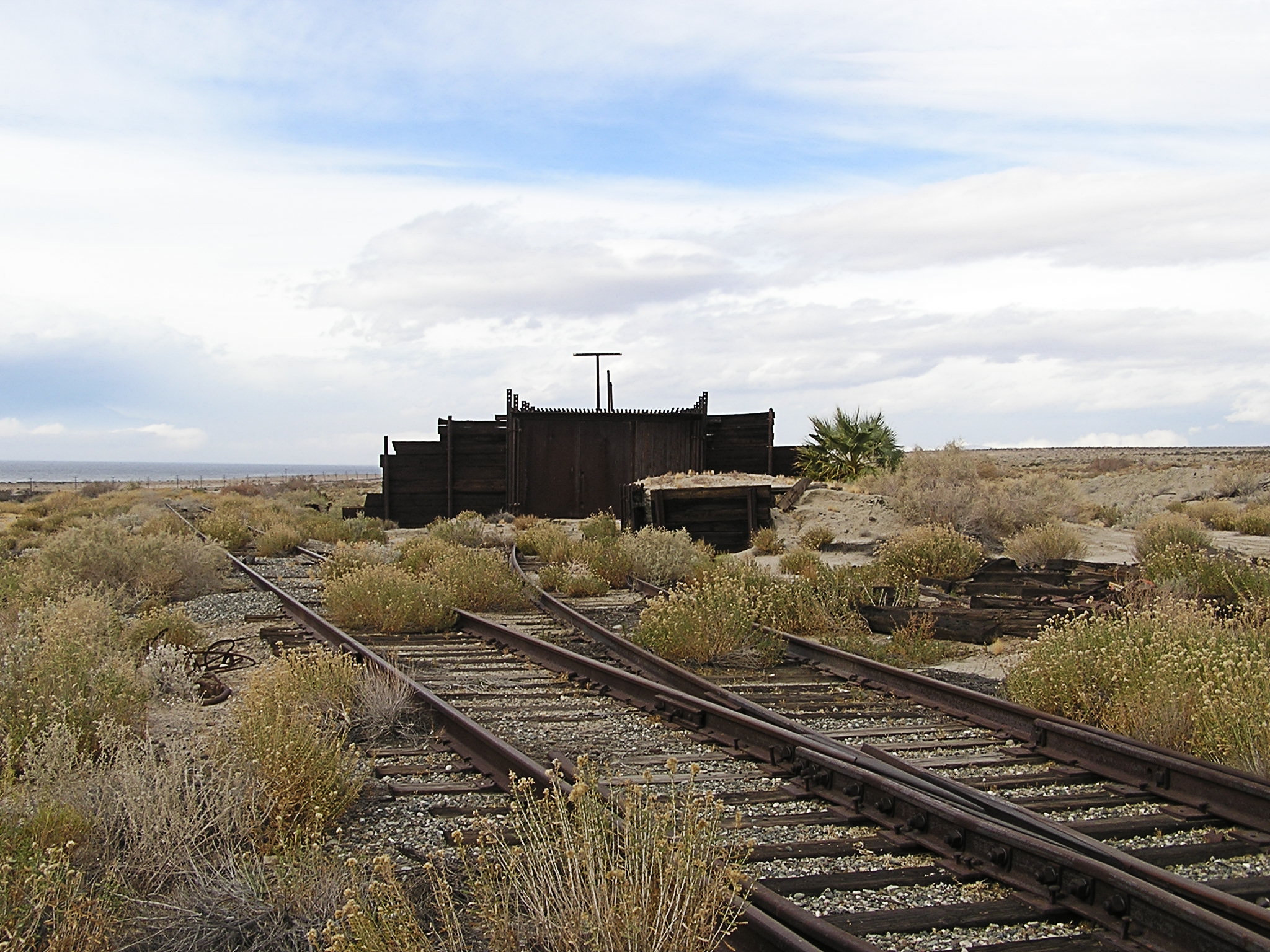 The maintenance equipment shed at the Ferrum end of the Eagle Mountain Railroad. Located adjacent to the Salton Sea in the Colorado Desert — Riverside County, Southern California.